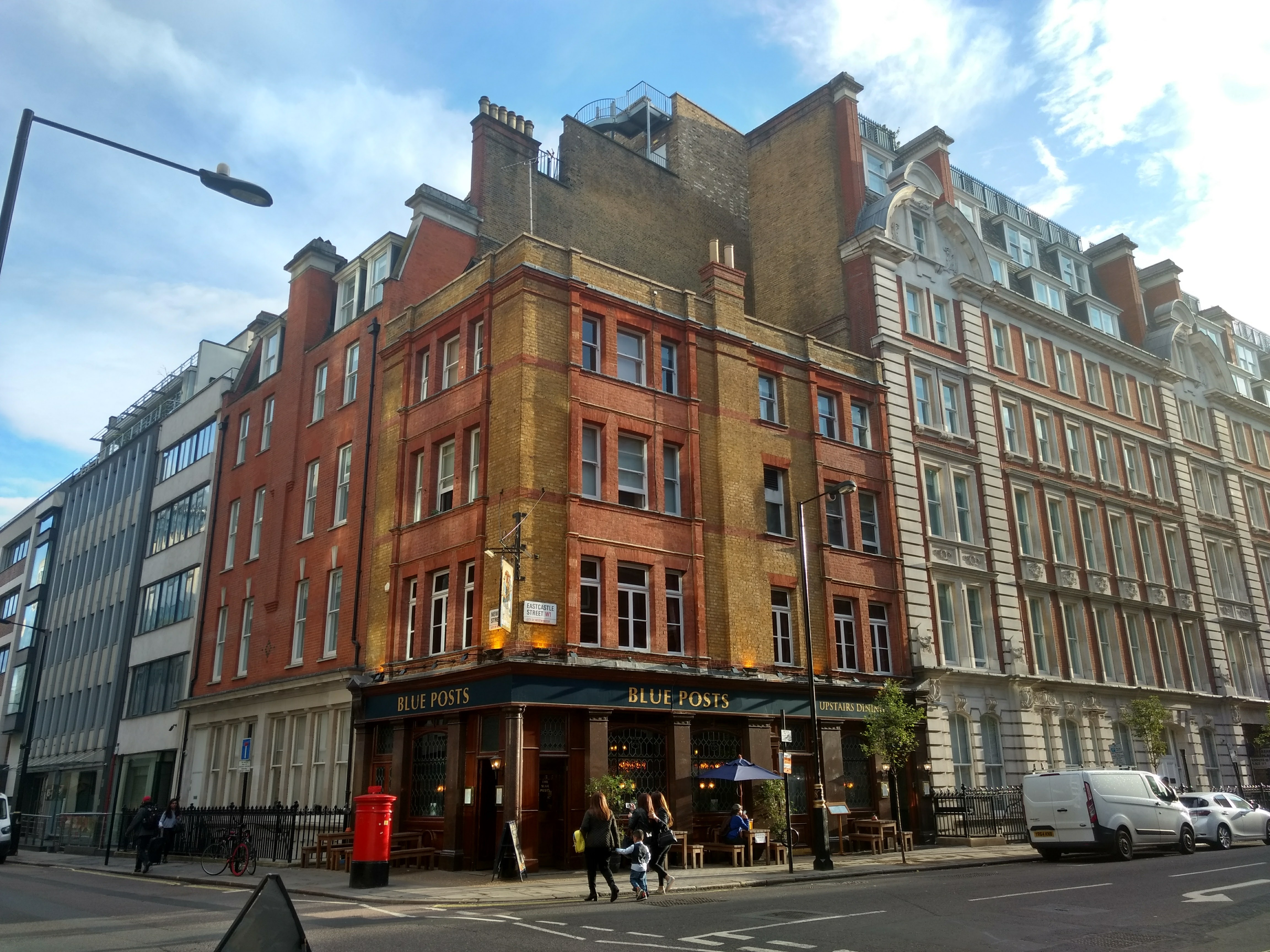 In London. 84, Newman Street, the first silver-grey building going down the street on the left, housed the VTS group of British technology company Logica plc during the 1980s.